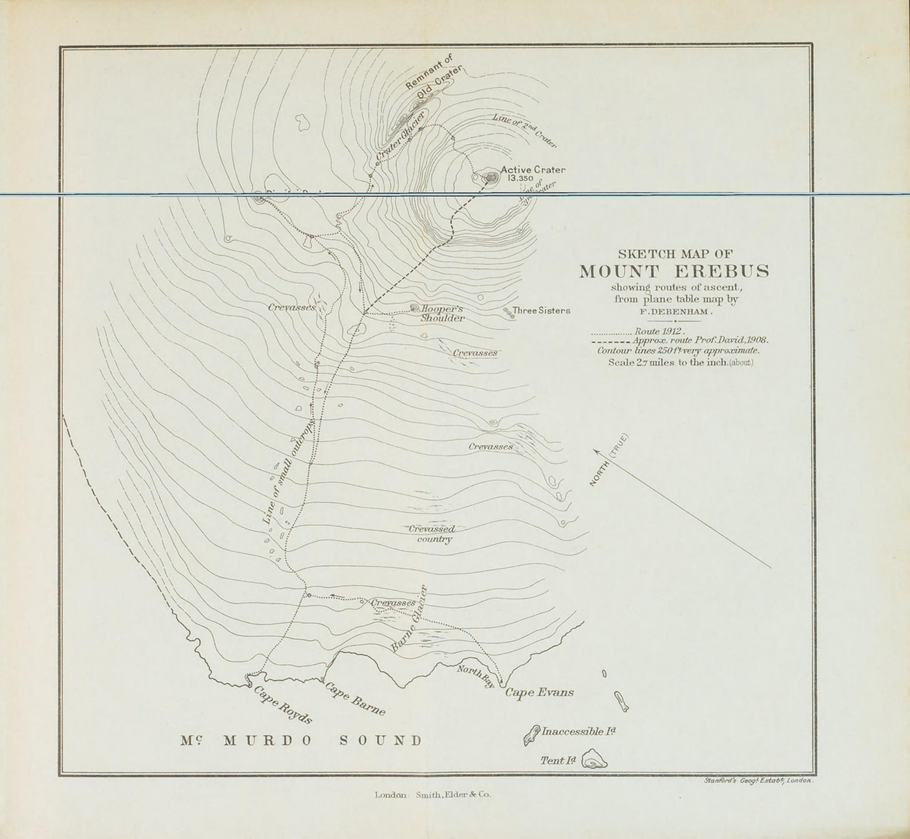 Scott's last expedition /